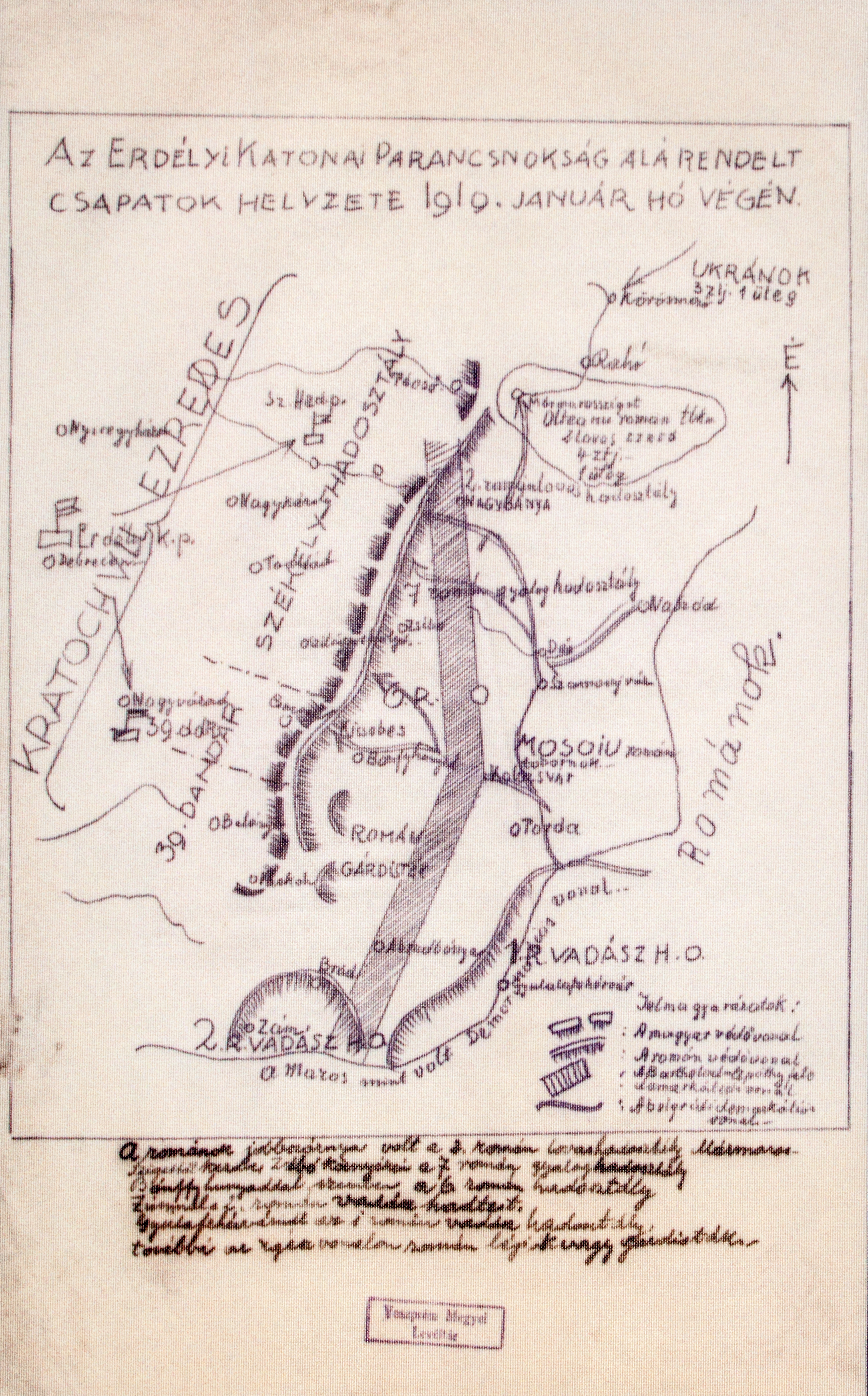 Map of the military situation in Transylvania, end of January, 1919